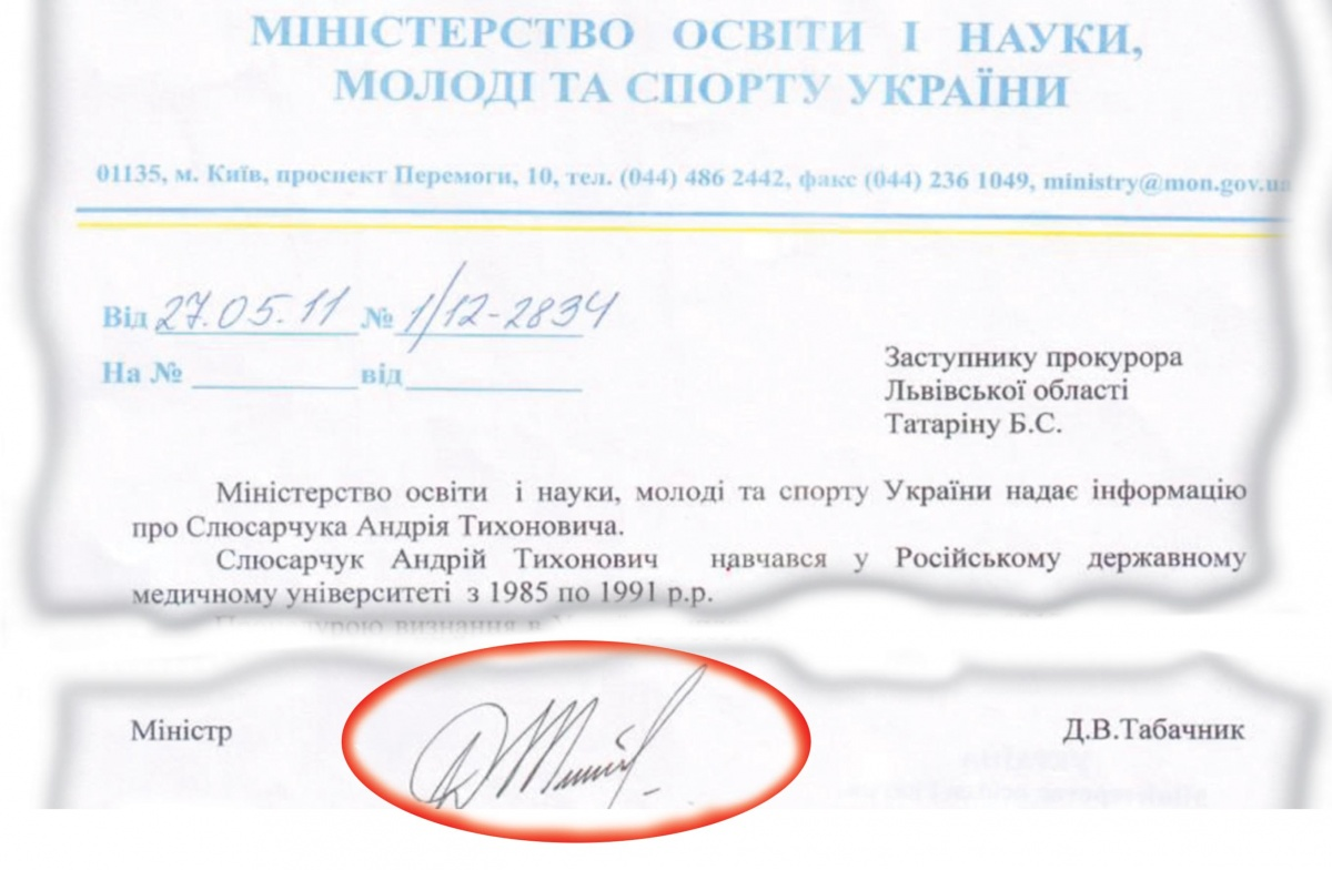 A letter from Ministry of Education and Science, confirming study at RNSMU